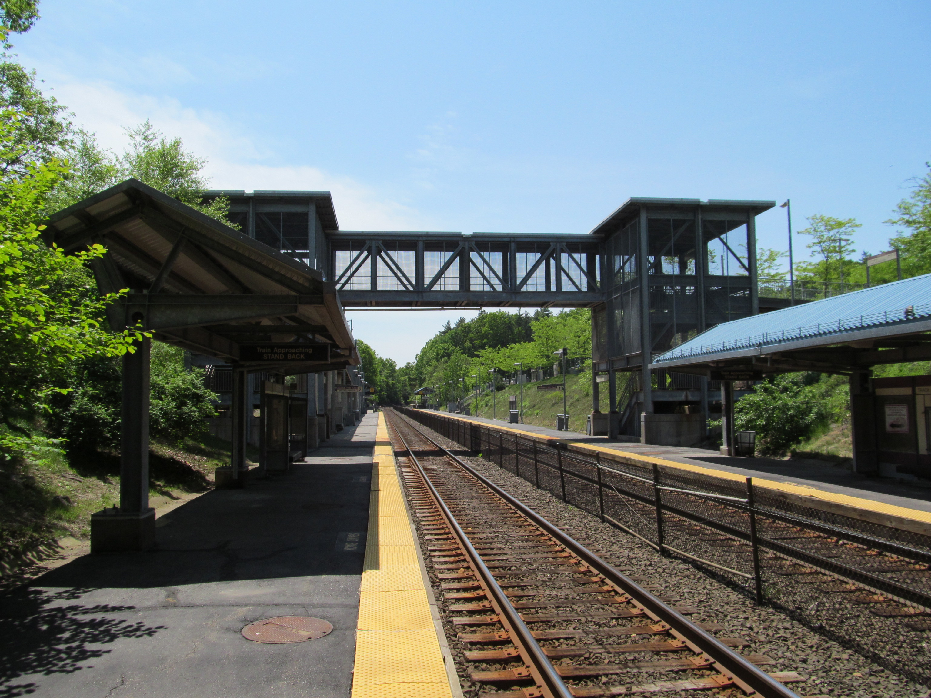 Grafton MBTA station, Outbound, North Grafton Massachusetts